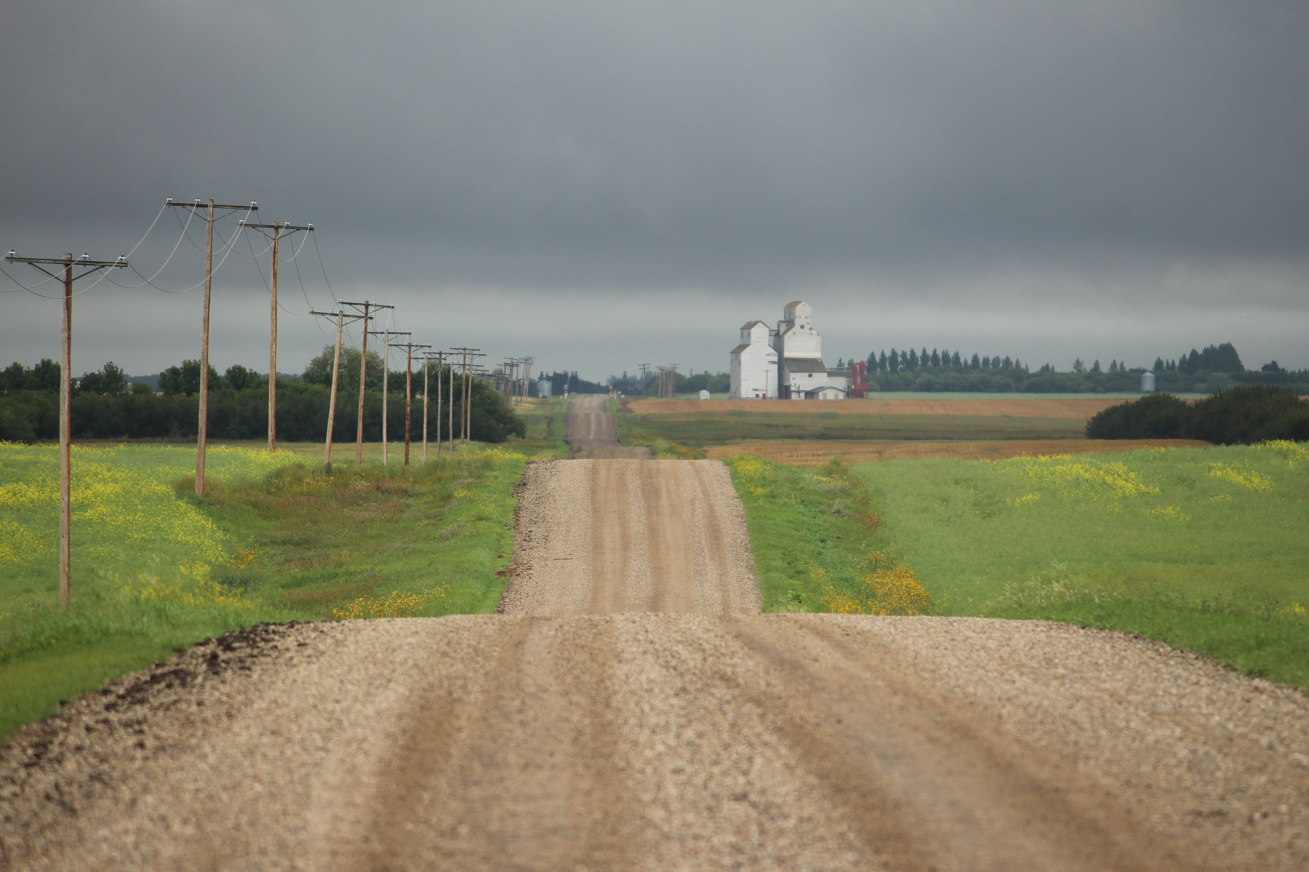 Grain elevators, from down a dirt road, Leney, Saskatchewan, Canada.